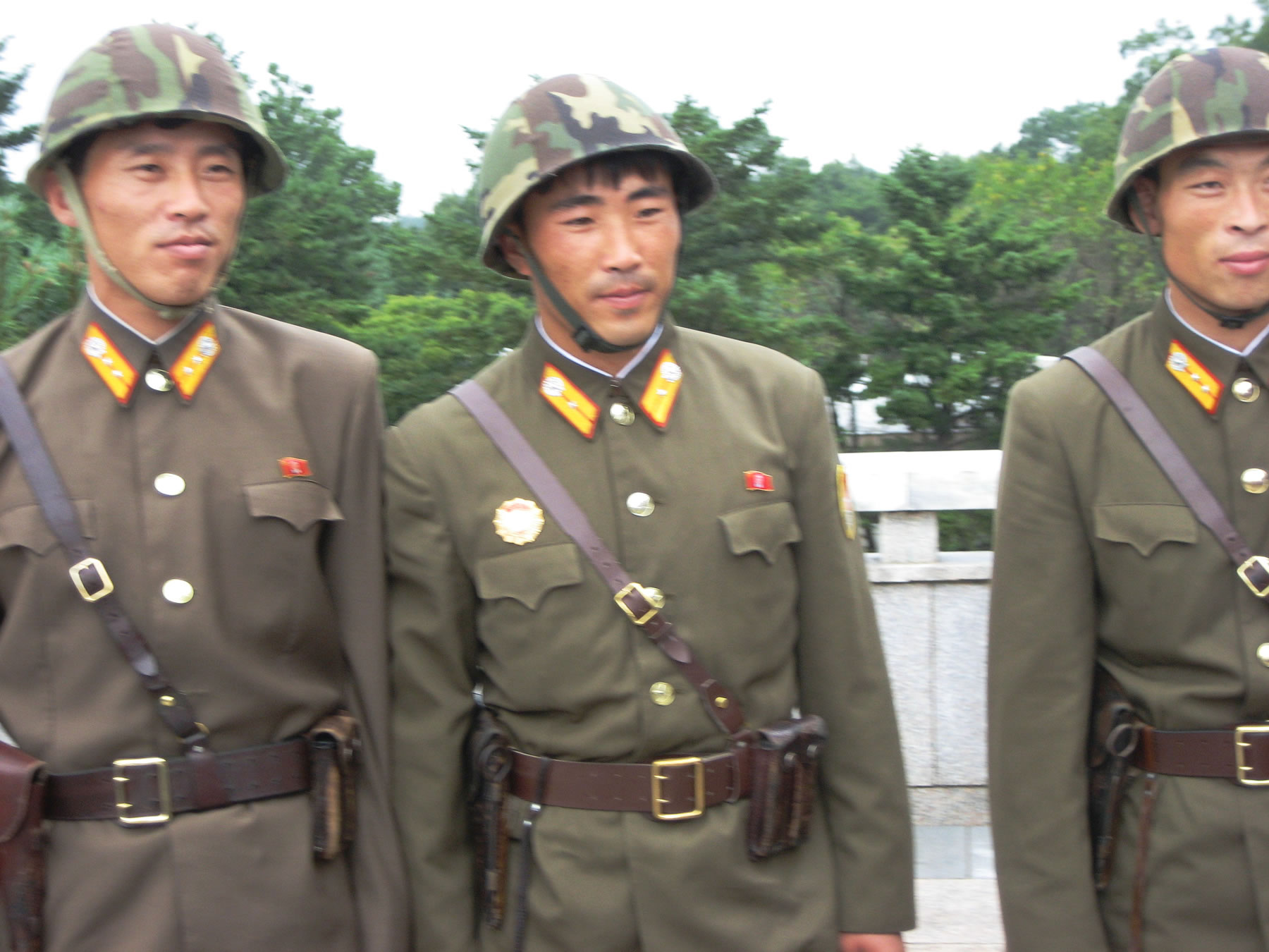 A trio of friendly North Korean soldiers at Panmunjon.